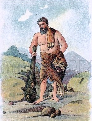 Hercules. French educational card, late 19th/early 20th century.